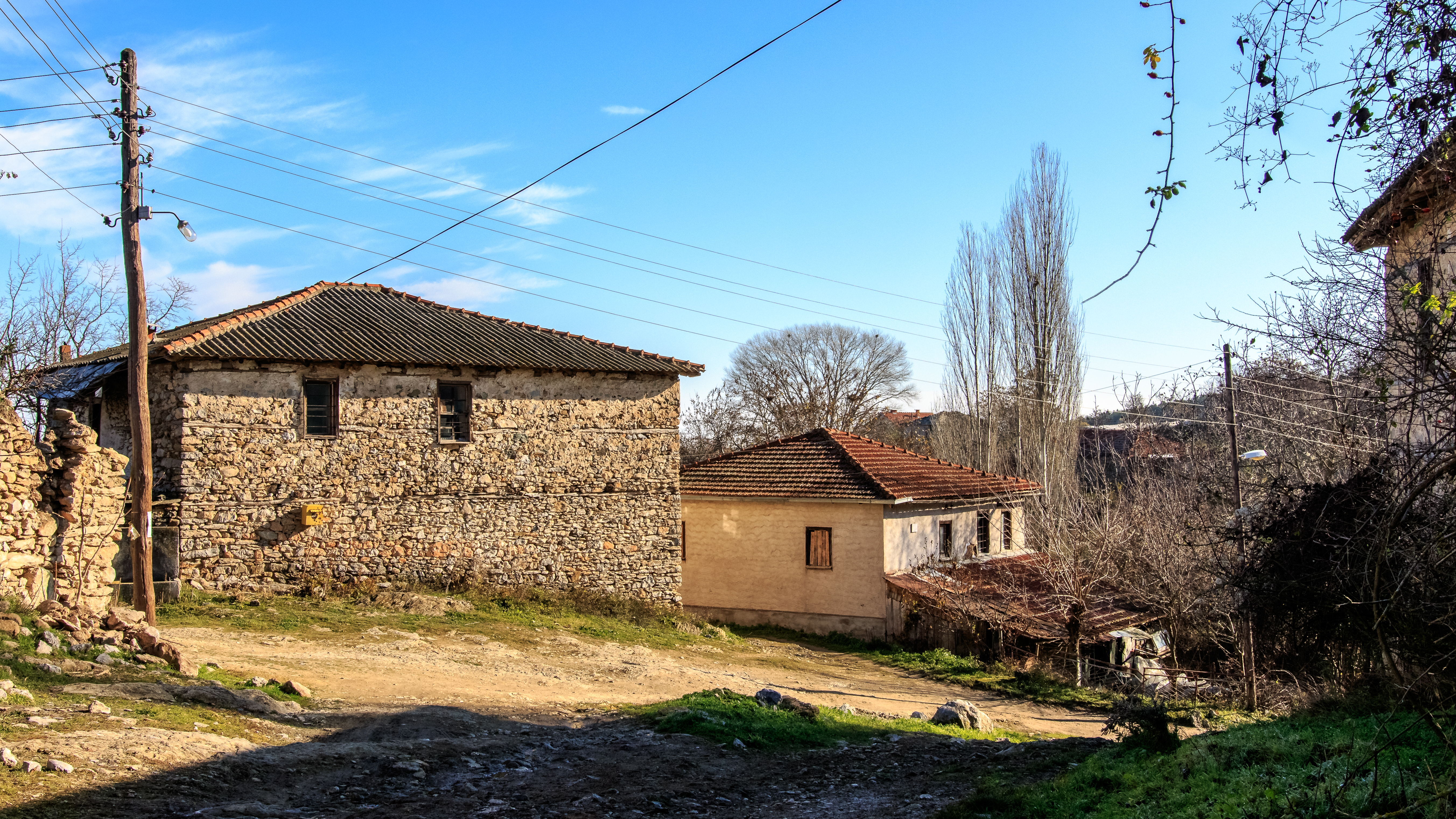 Old houses in the village Podles